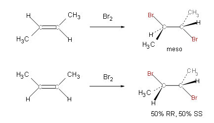 reaction scheme of addition of bromine to 2-butene